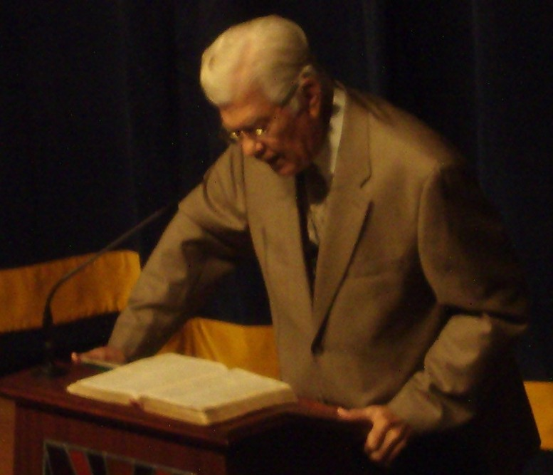 Pastor Al Janney preaching at New Testament Baptist Church in South Florida for the Fourth of July